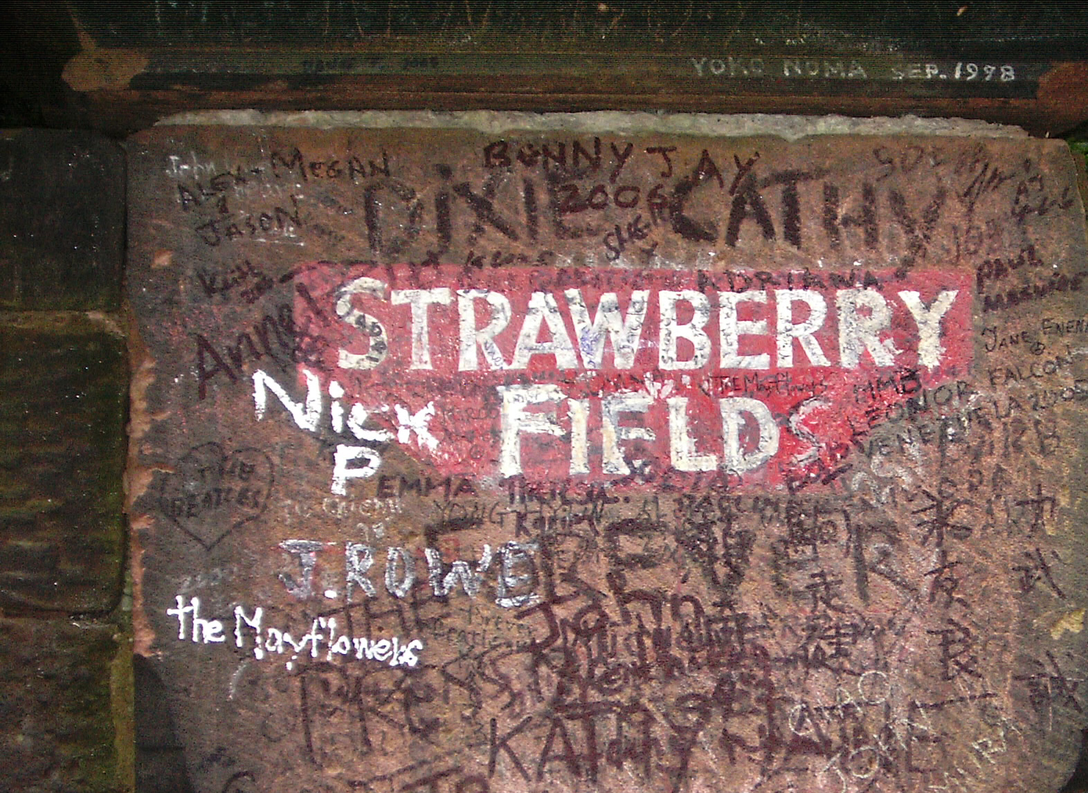 The sign for Strawberry Field, Liverpool, with excessive graffiti.